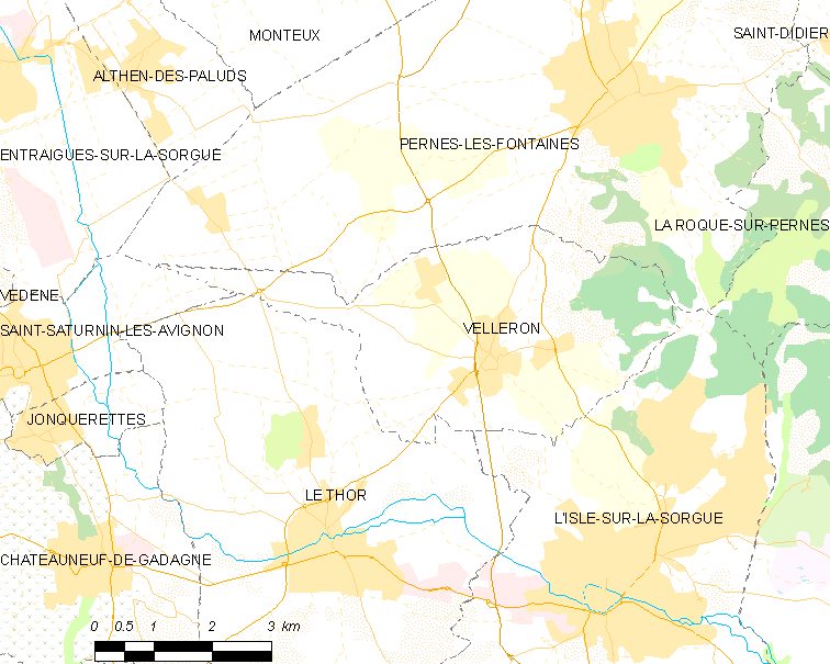 Map of French municipality Velleron